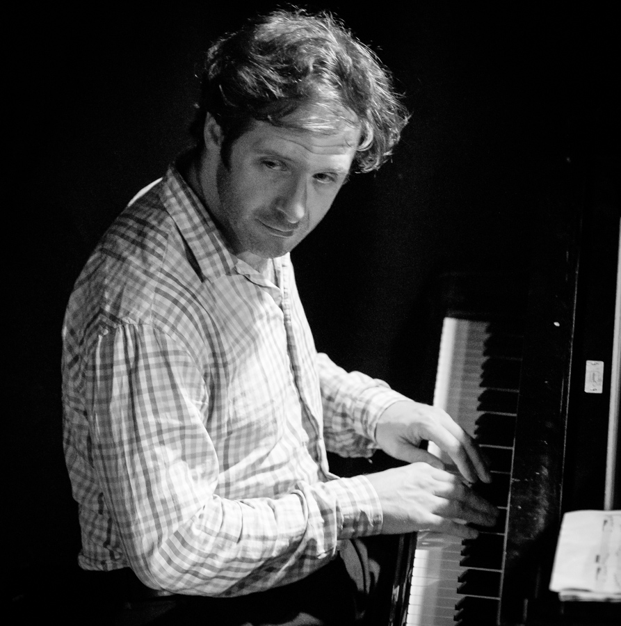 Ivo Neame performs with Marius Neset Quintet and Stian Carstensen at the stage of EnergiMølla. The concert took place on 08. July 2017 in Kongsberg. Lineup:Marius Neset (saxophone)Ivo Neame (piano)Jim Hart (vibraphone)Petter Eldh (bass guitar)Anton Eger (drums)Stian Carstensen (accordion)